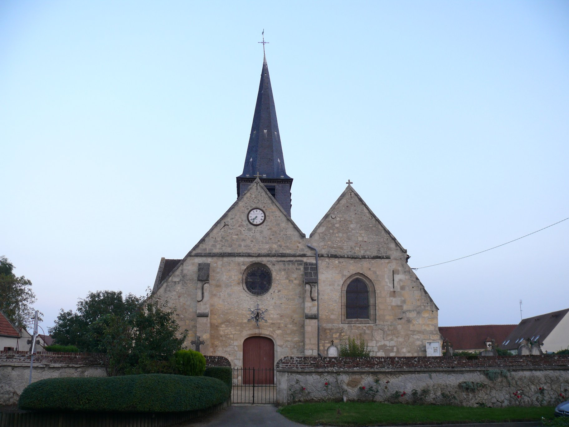 Saint-John-the-Baptist's church of Villers-sur-Coudun (Oise, Picardie, France).